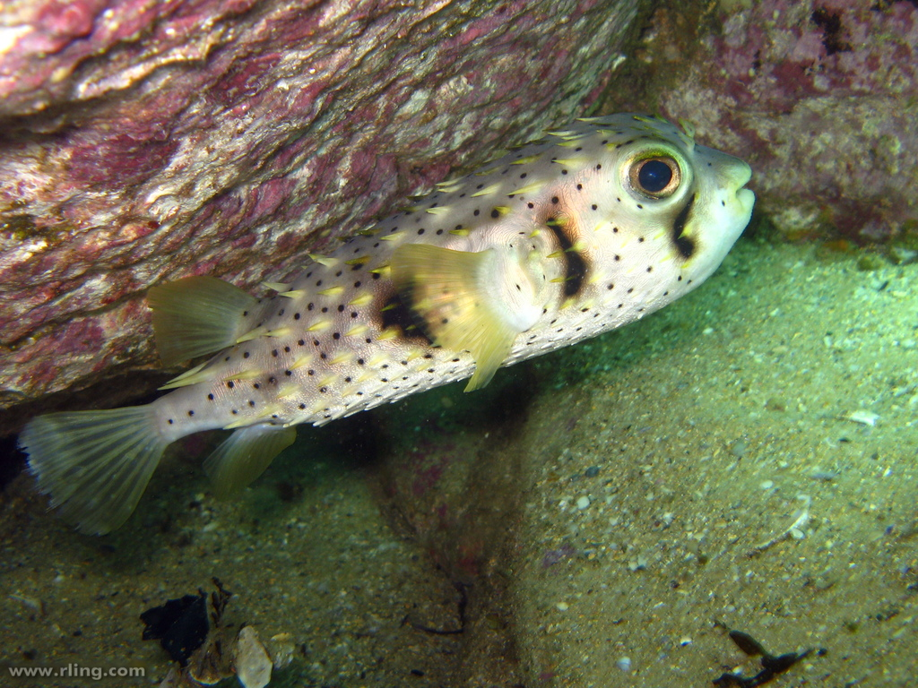 A Three-bar Porcupinefish (Dicotylichthys punctulatus). Fairy Bower, Manly, NSW